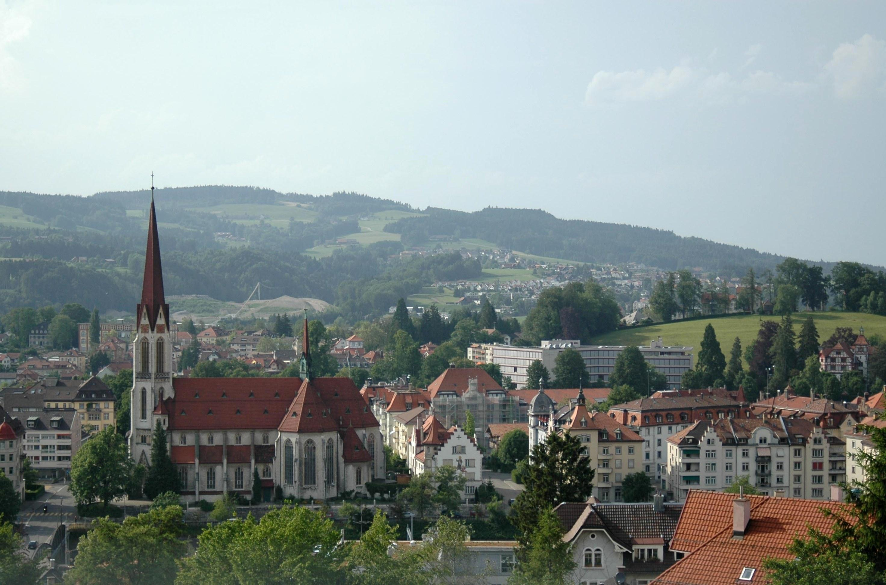 View of Sankt Gallen at Vonwilstrasse.